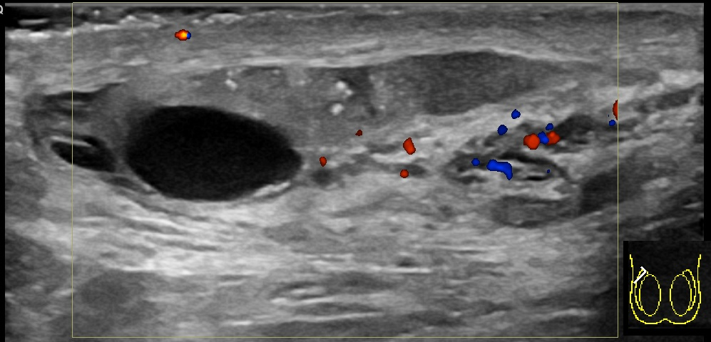 Scrotal ultrasound of a 77 year old male with recurrent symptoms of right sided epididymitis for several months. It shows a normal sized epididymis with multiple small calcifications (up to 1 mm in size), as well as a cyst, indicating chronic epididymitis (although the cyst may also be a spermatocele).